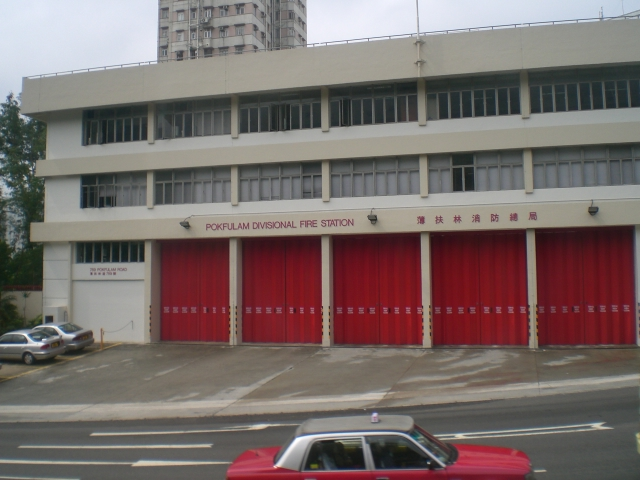 Pok Fu Lam Divisional Fire Station, Pok Fu Lam. (Photo created by me.)